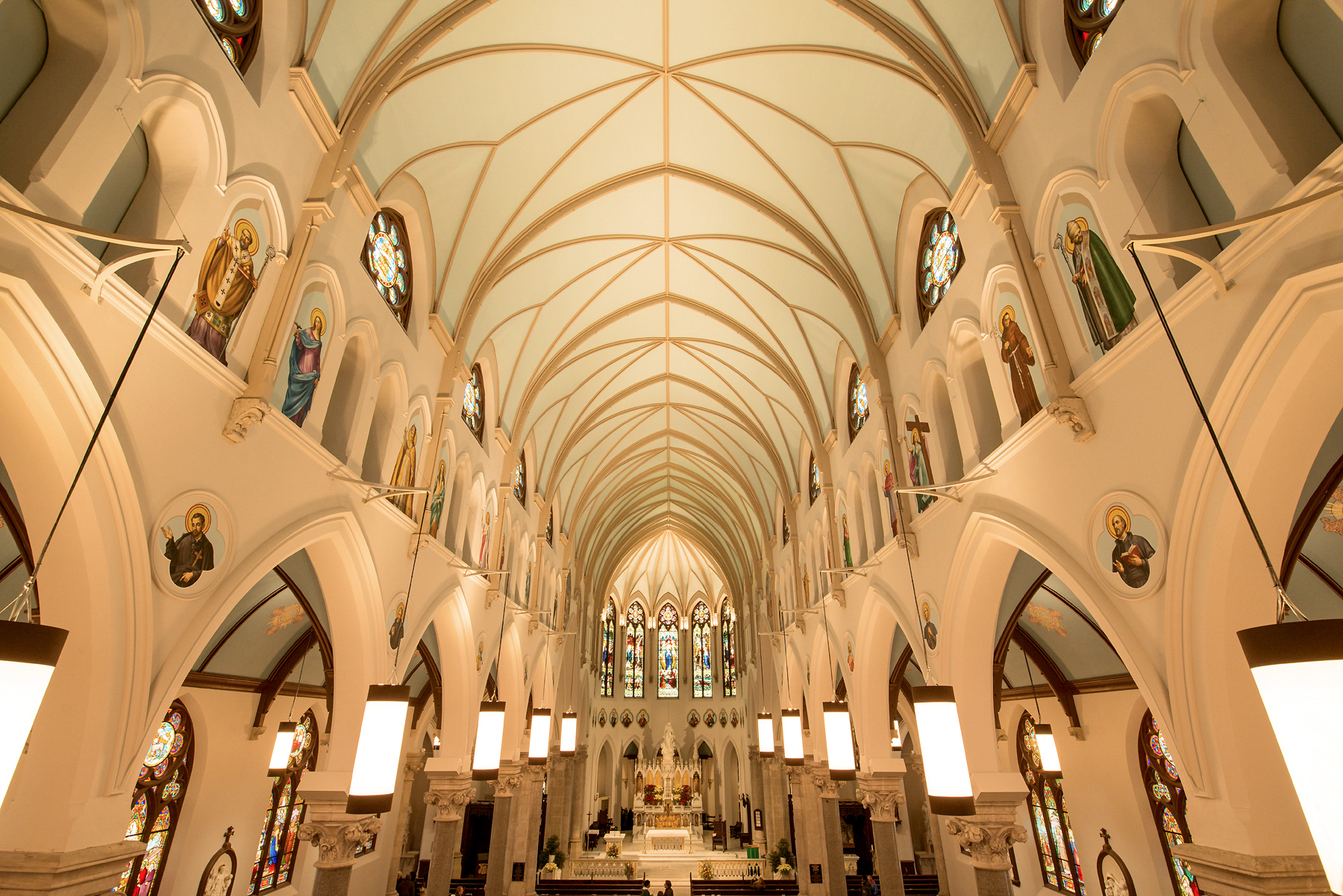 The interior in February 2015, post-renovation